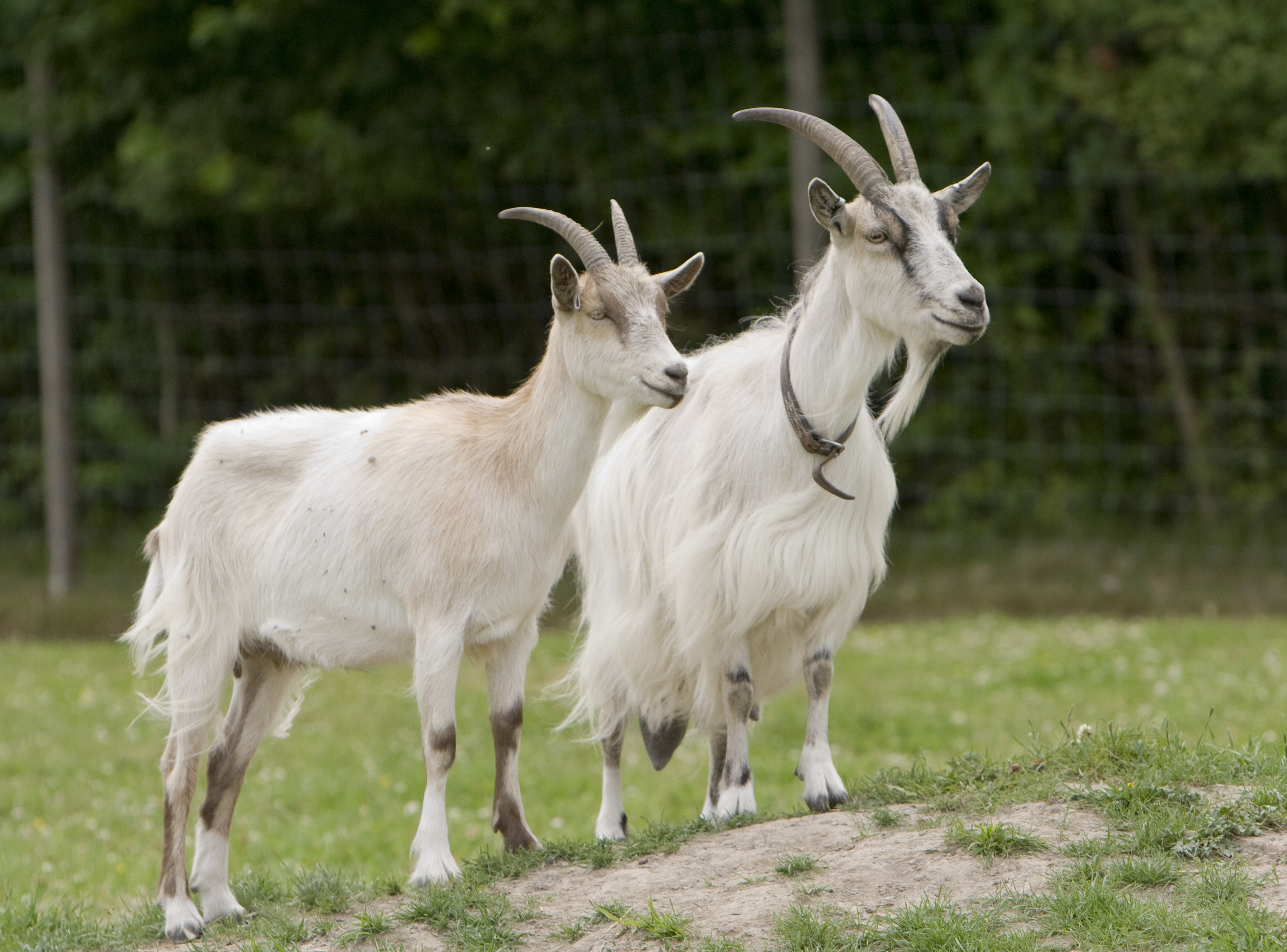 A pair of goats.